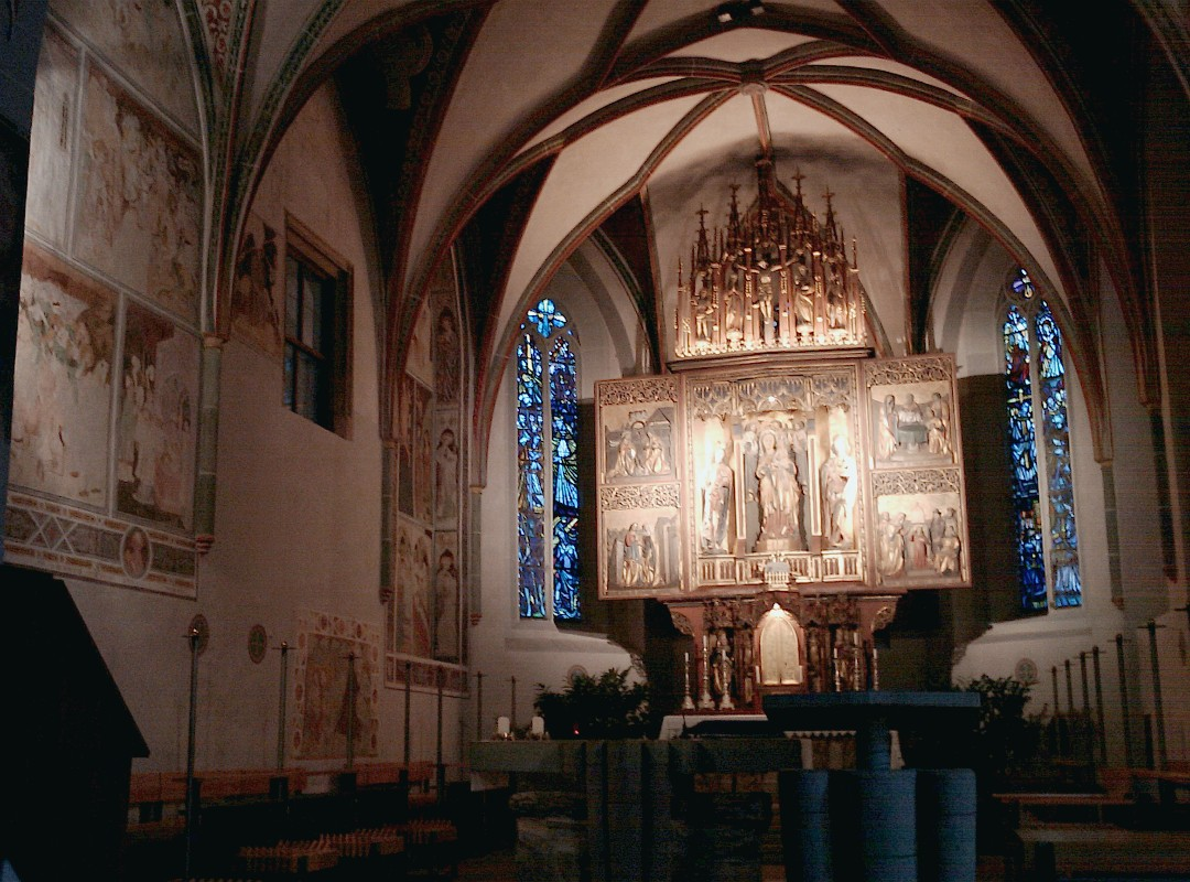 Interior and 15th century wallpaintings of church Saint Oswald in Seefeld, Tyrol (Austria)